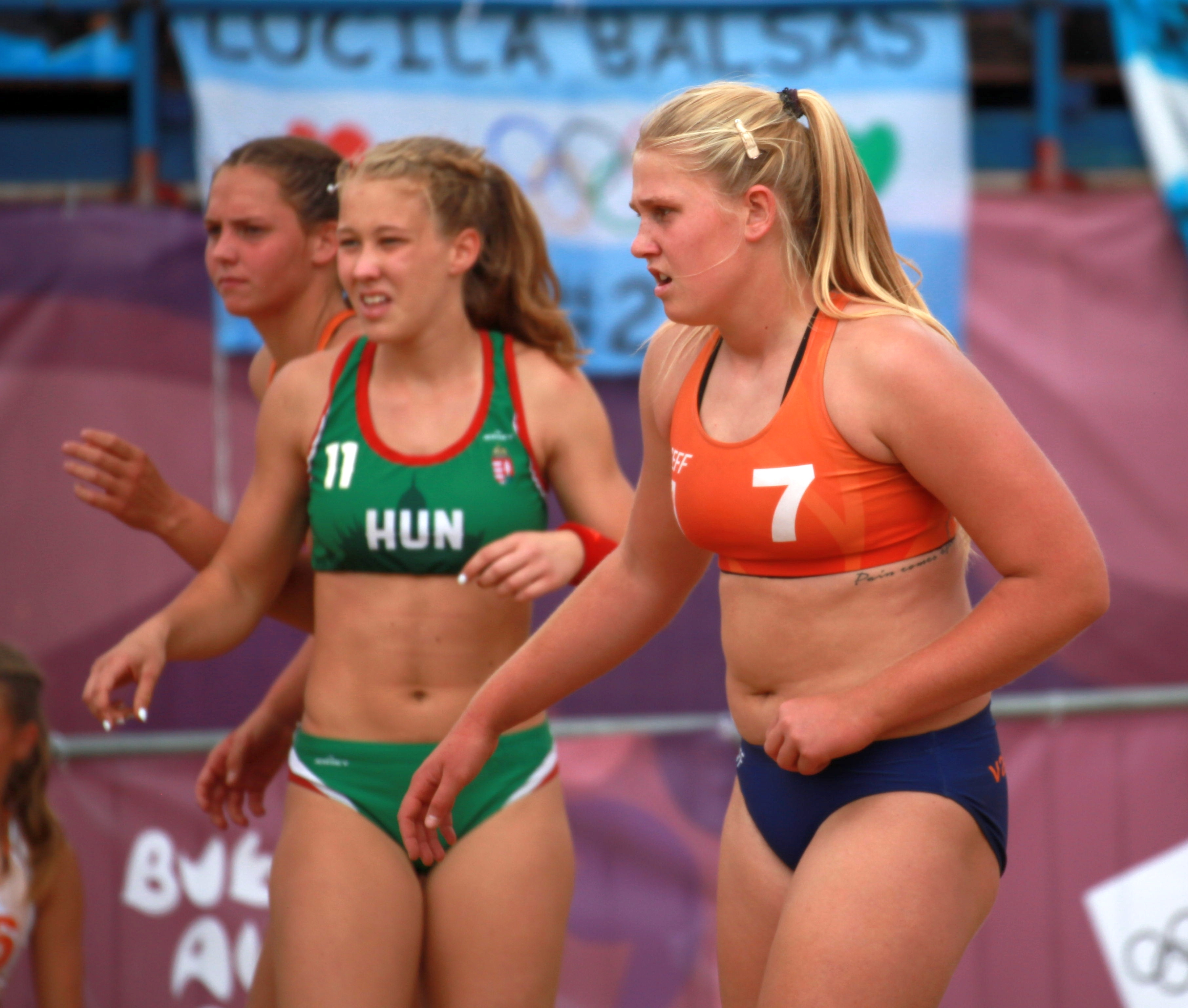 Beach handball at the 2018 Summer Youth Olympics in Buenos Aires at 13 October 2018 – Girls Bronze Medal Match – Hungary-Netherlands 2:0